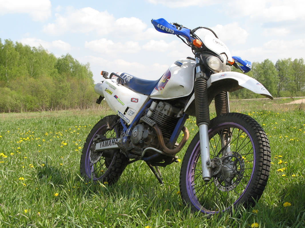 Dualpurpose motorcycle Yamaha TTR Raid 250